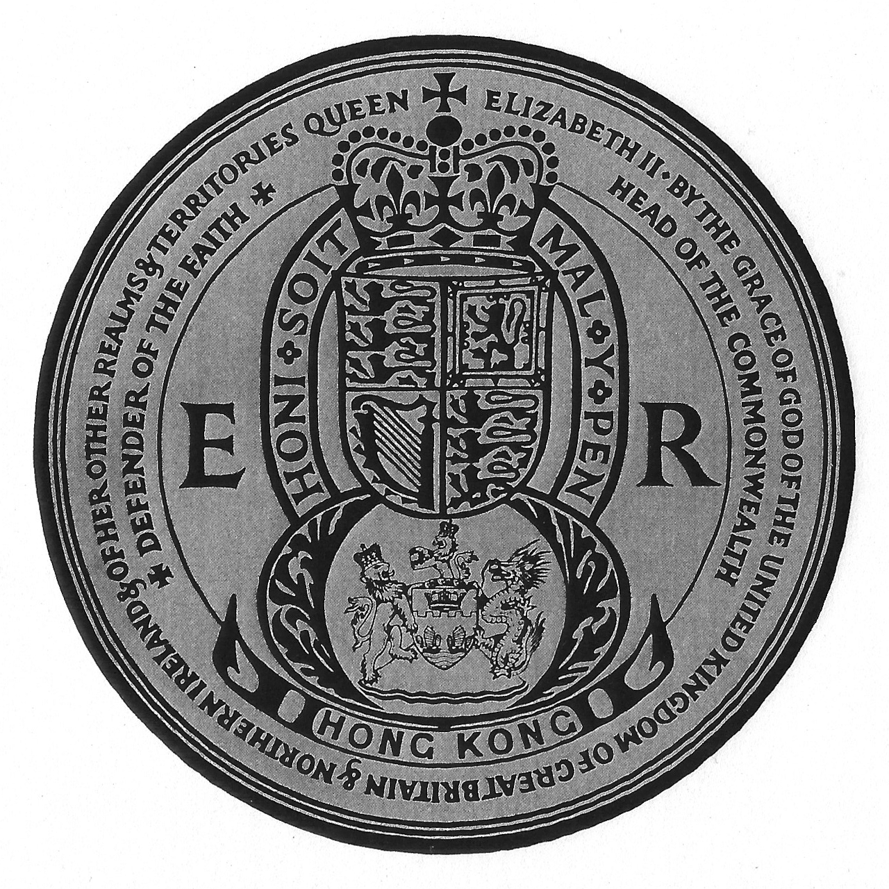 The Second Elizabeth II Seal for the Colony of Hong Kong 中文（香港）: 伊利沙伯二世的第二個香港政府公印